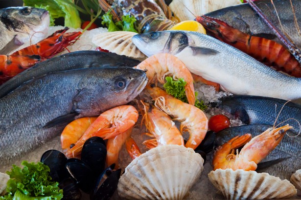 A variety of fresh fish, mollusks, and crustaceans at a market